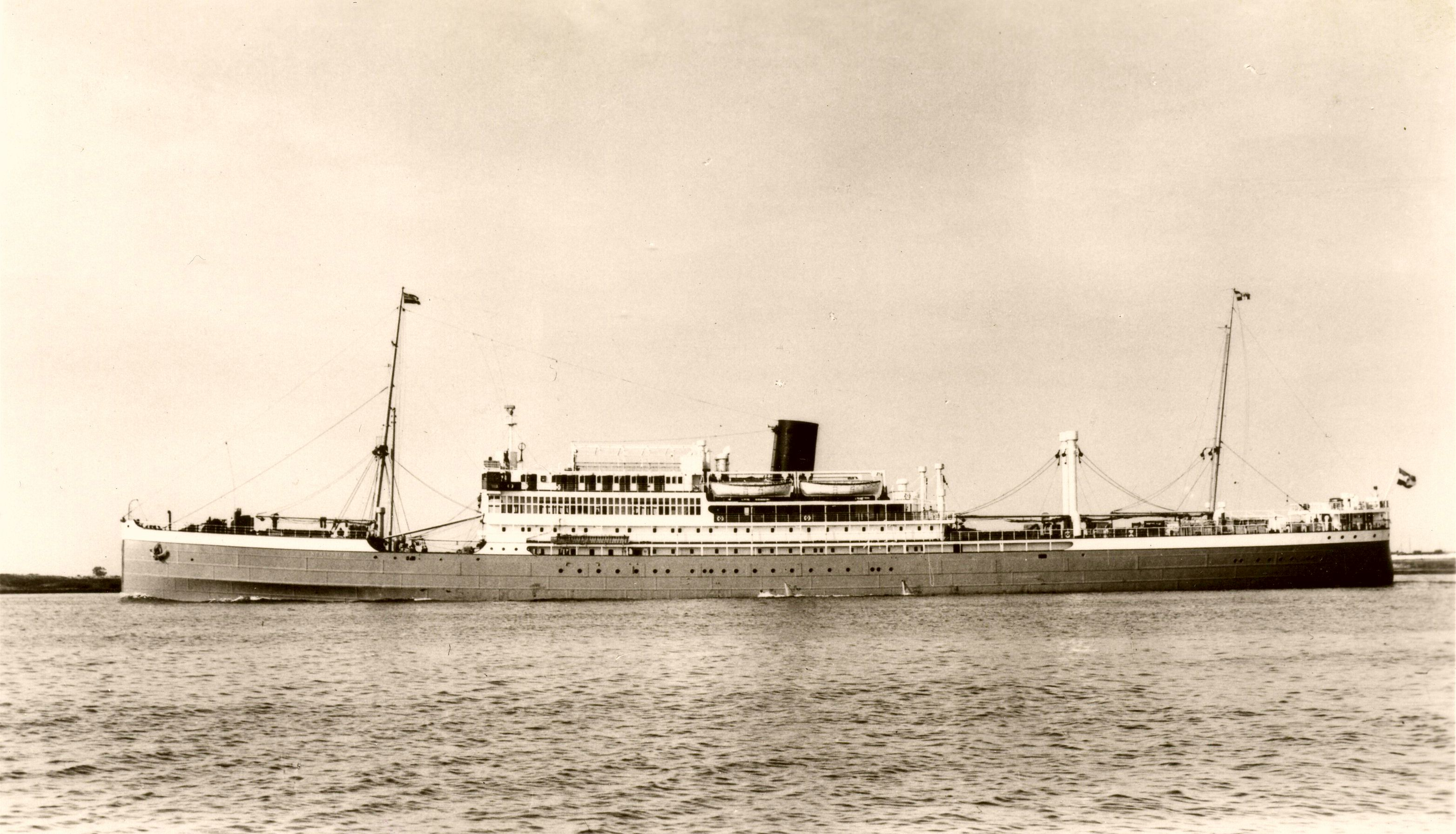 The Koninklijke Rotterdamsche Lloyd motor ship Indrapoera, built by Koninklijke Maatschappij De Schelde in 1925. This may be a photo of her at her completion in 1925, or it may have been taken after her 1931 refit.